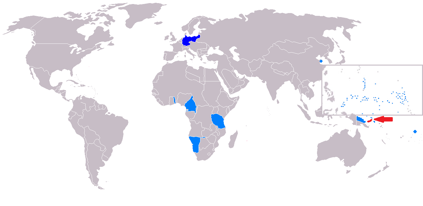 The German colonies in 1914 with New Pomerania (now New Britain) in red.